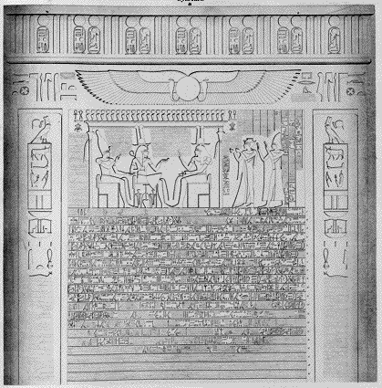 Marriage Stela recording the marriage of Ramesses II and Maathorneferure, daughter of the King of the Hittites